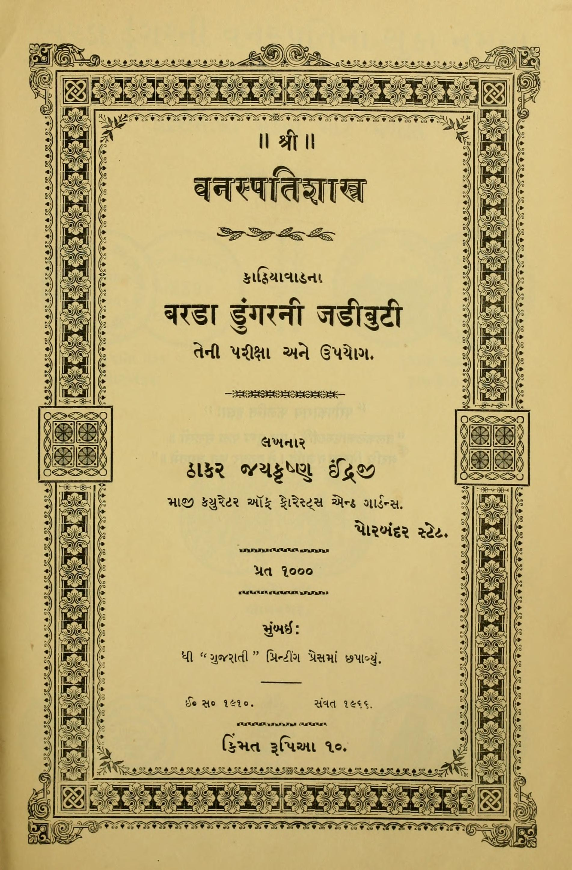 Botany : a complete and comprehensive account of the flora of Barda Mountain (Kathiawad) / by Jayakrishna Indraji.